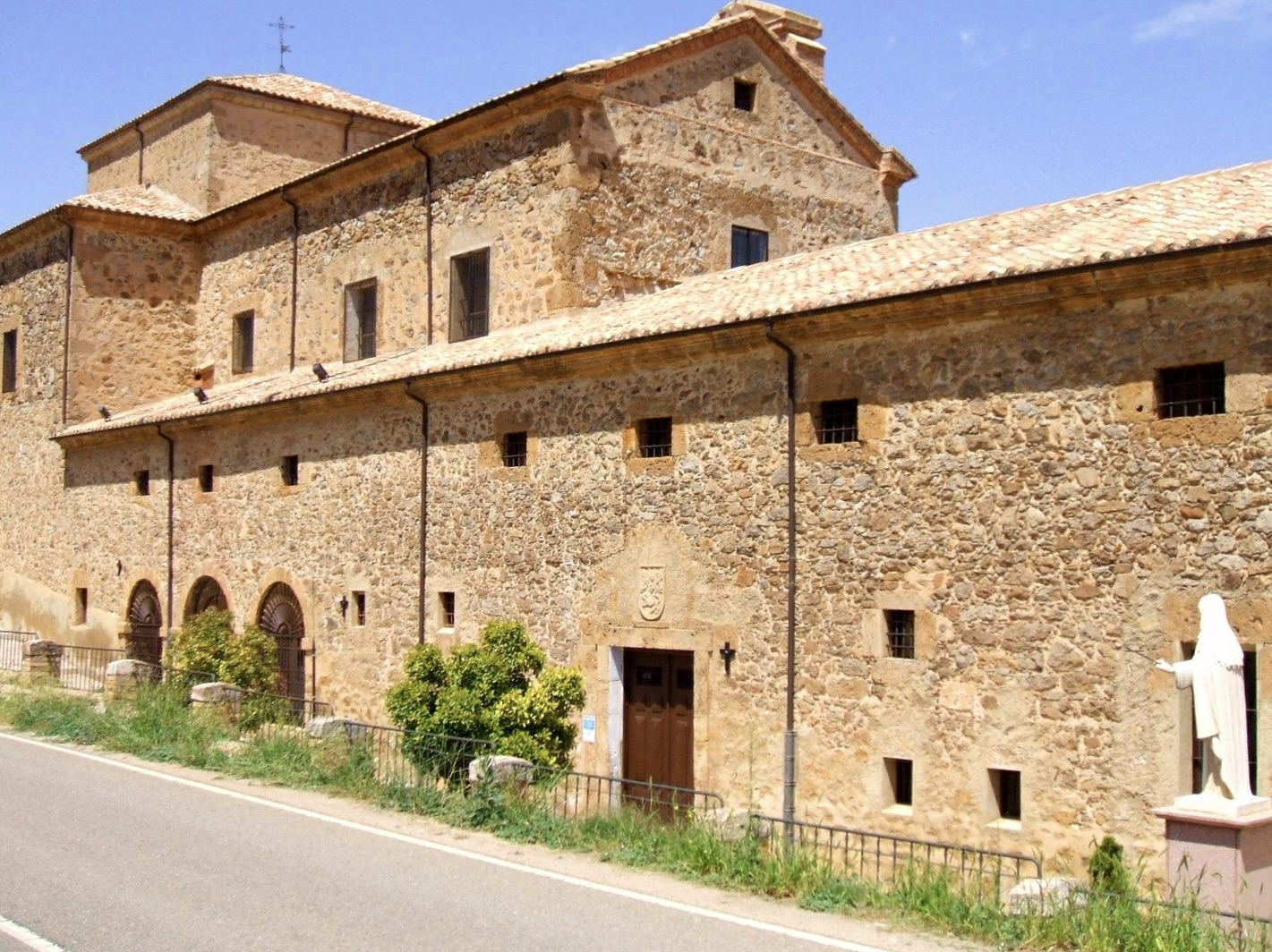 Convento de la Concepción, Ágreda (Soria, Castilla y León, España)